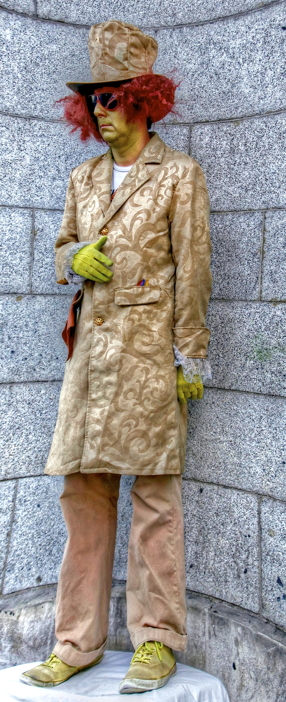 golden mime (standing totally still in front of Bank of Ireland in Dublin)